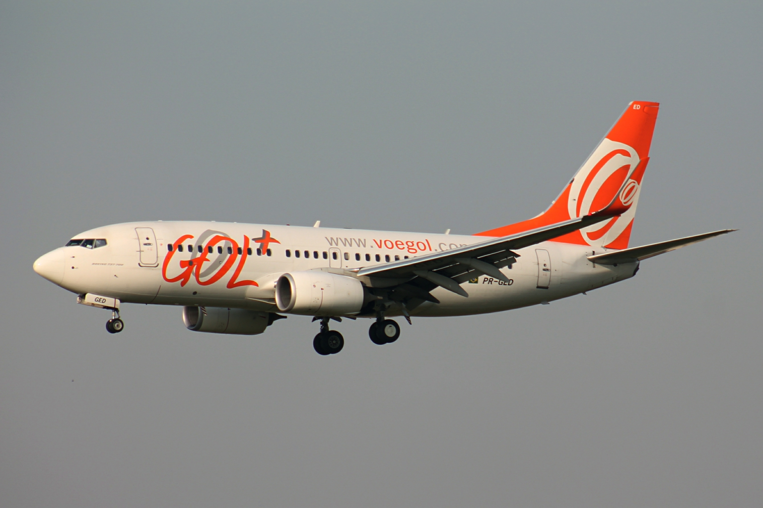 IMG_9196_Fotor